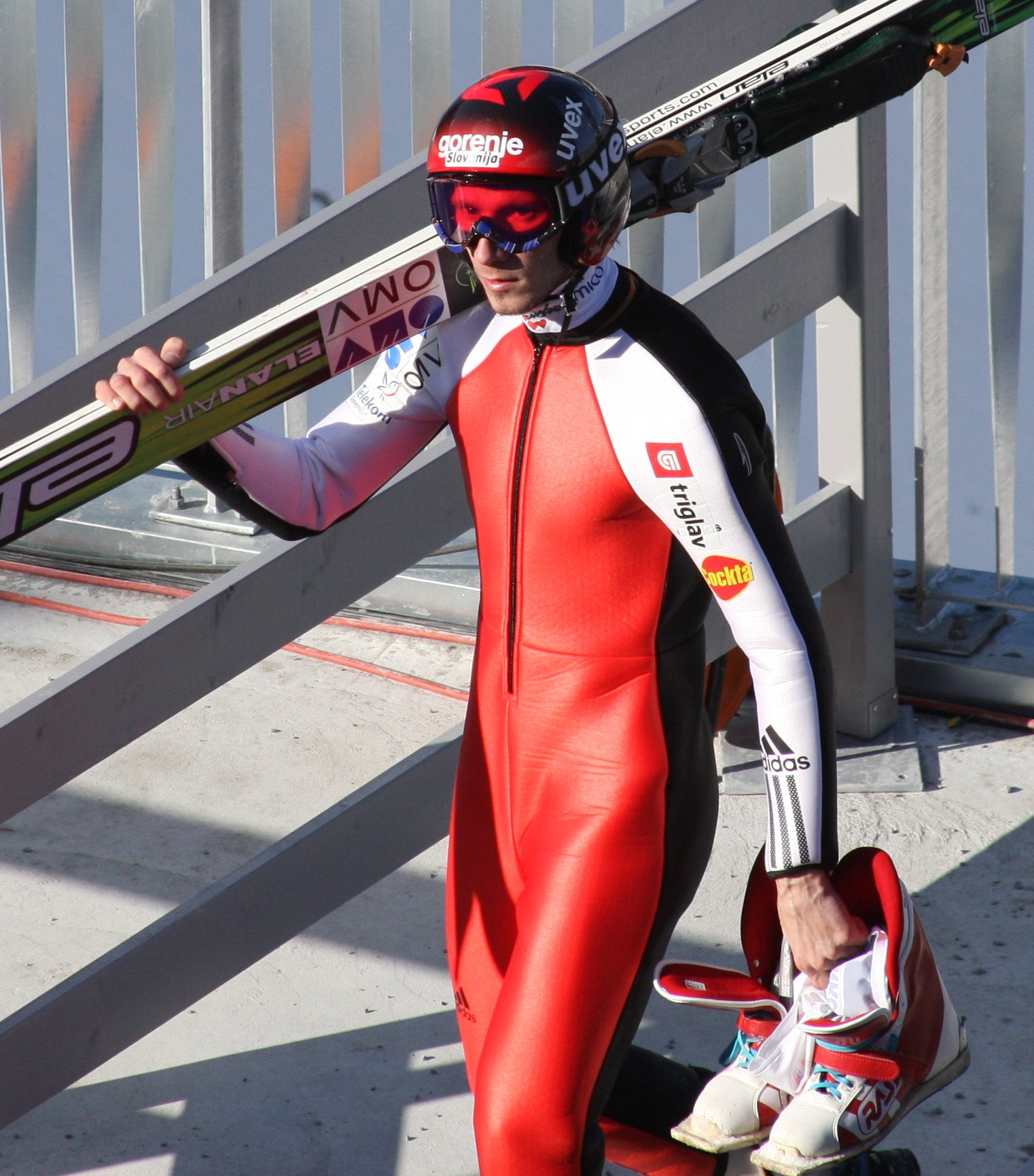 Robert Kranjec (SLO) in WC Holmenkollen, Oslo, 14 march 2010